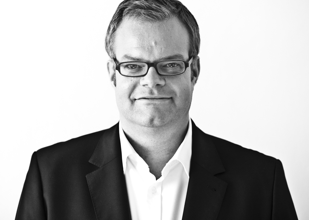 Amblank, Olaf: Co-Founder of E.C.L.A. European College of Liberal Arts, Berlin, Germany. Lives and works in Hamburg, Germany